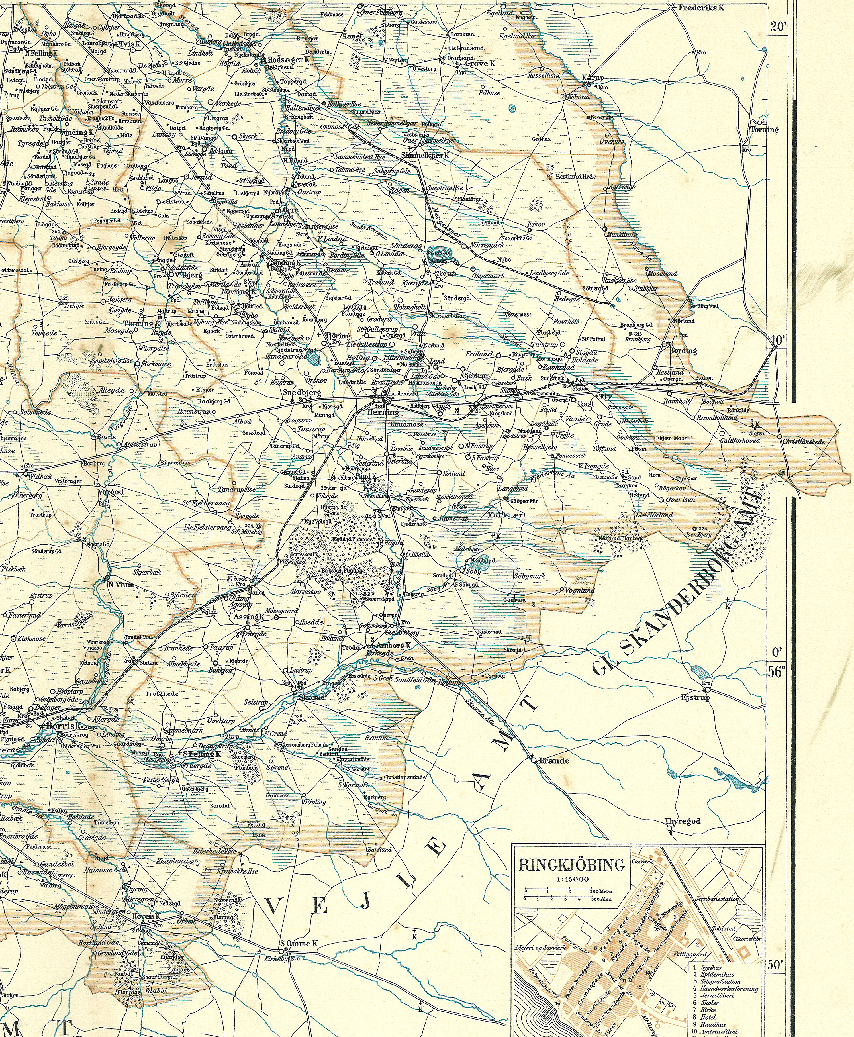 Map of Hammerum Herred in the eastern part of Ringkøbing County in Denmark